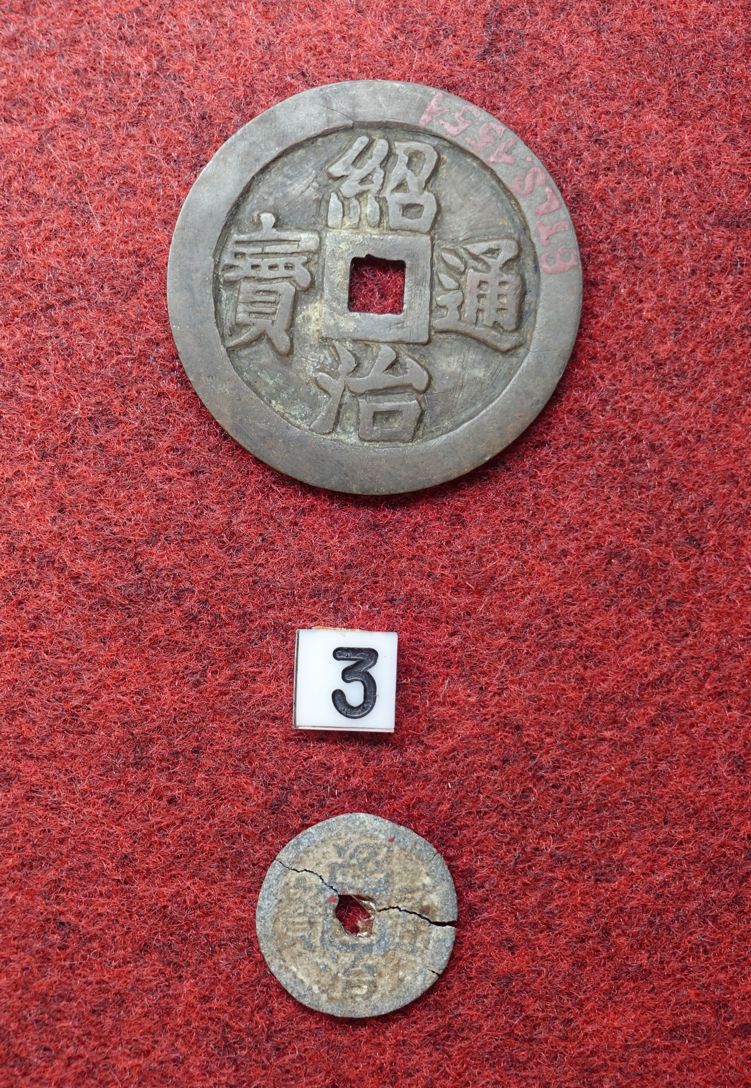 Exhibit in the Museum of Vietnamese History, Ho Chi Minh City, Vietnam. This work is old enough so that it is in the public domain.